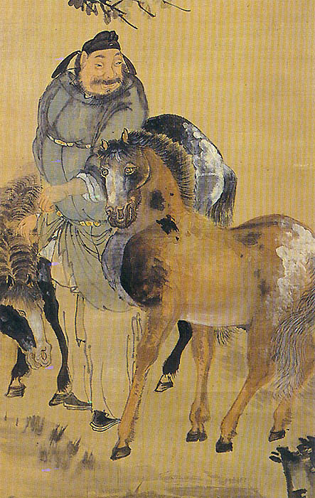 The picture titled "Ssangma inmuldo" (the painting of a man with two horses) is painted by Owon, or Jang Seungeop.